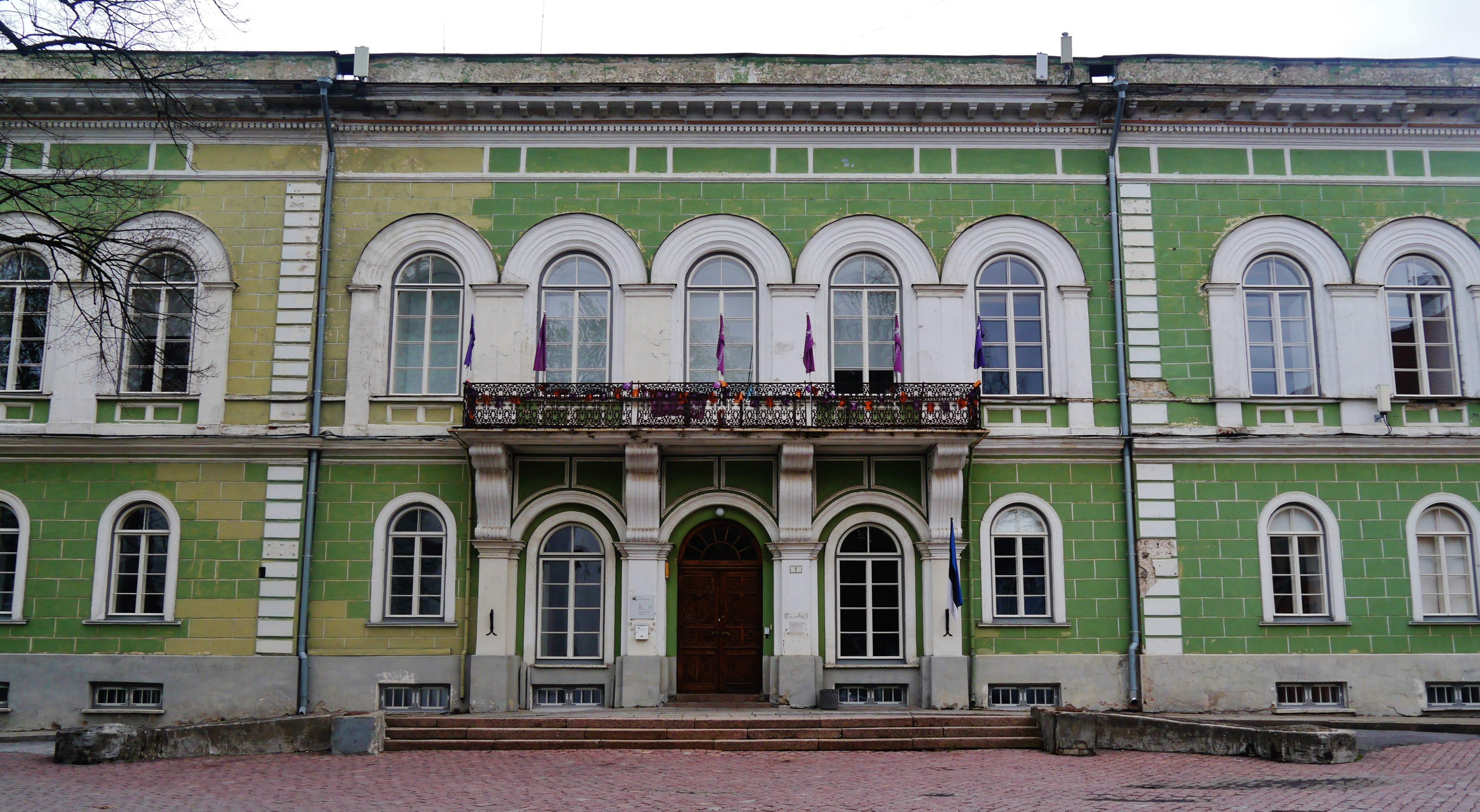 Cathedral Hill, Tallinn, Estonia